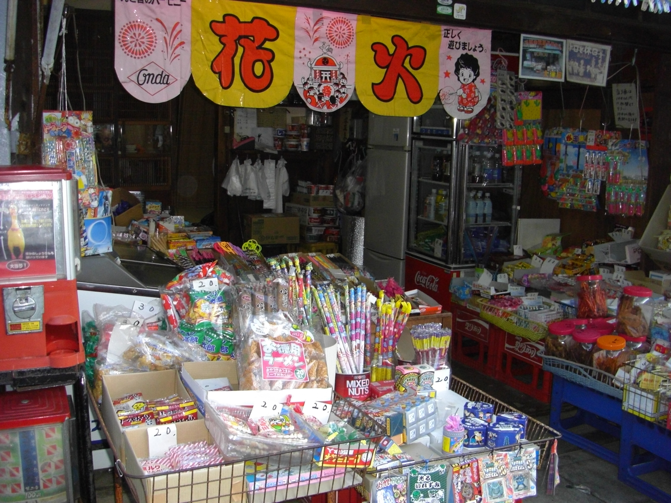 Small fireworks at a shop in Miura, Kanagawa, Japan.